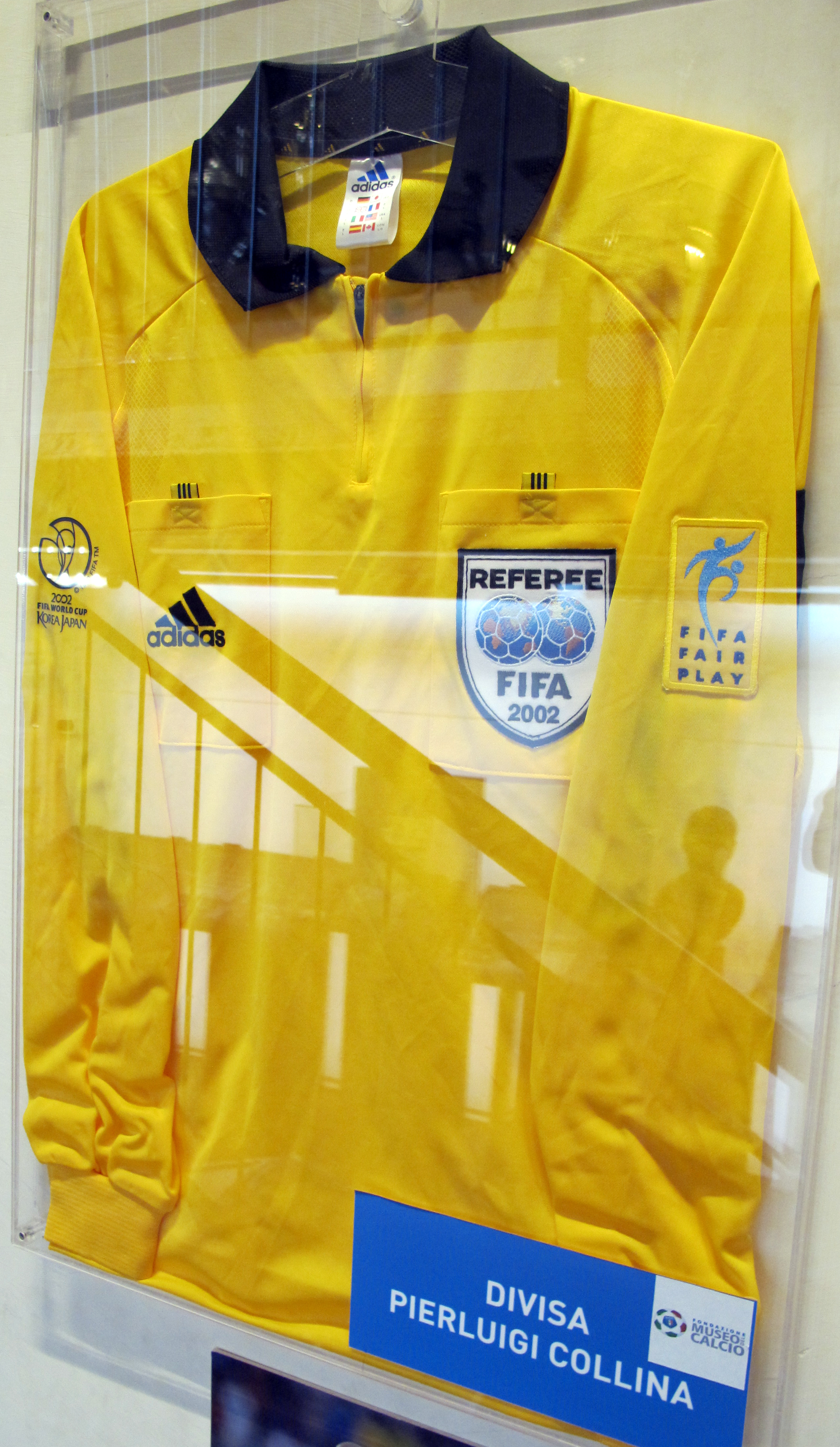 Pierluigi Collina shirt worn during 2002 FIFA World Cup Final between Brazil and Germany displayed at the Museo del Calcio, Florence.